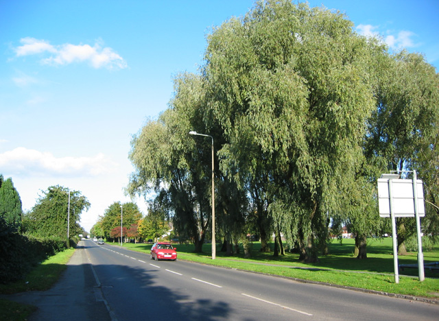 Middlewich Road (A530), N Nantwich Broad road on the outskirts of Nantwich. The recreational grounds at The Barony are on the right, St Mary's Cemetery and the retail park on Beam Heath Way are on the left